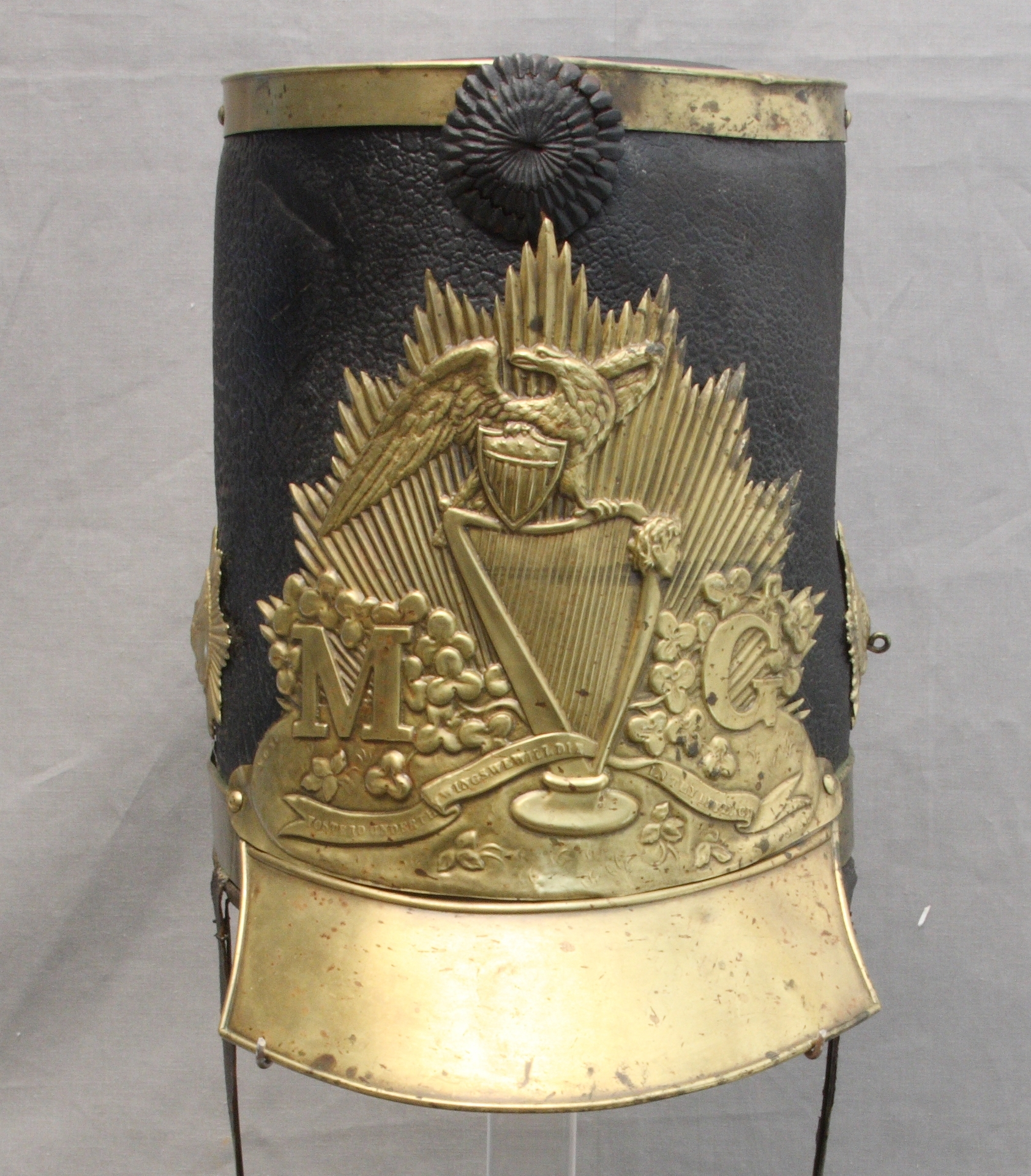 This artifact belongs to the U.S. Army Heritage and Education Center